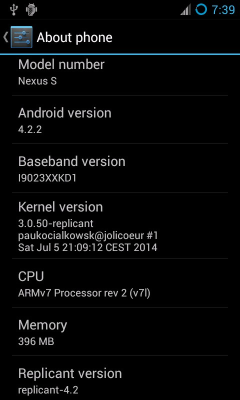 replicant 4.2 crespo settings